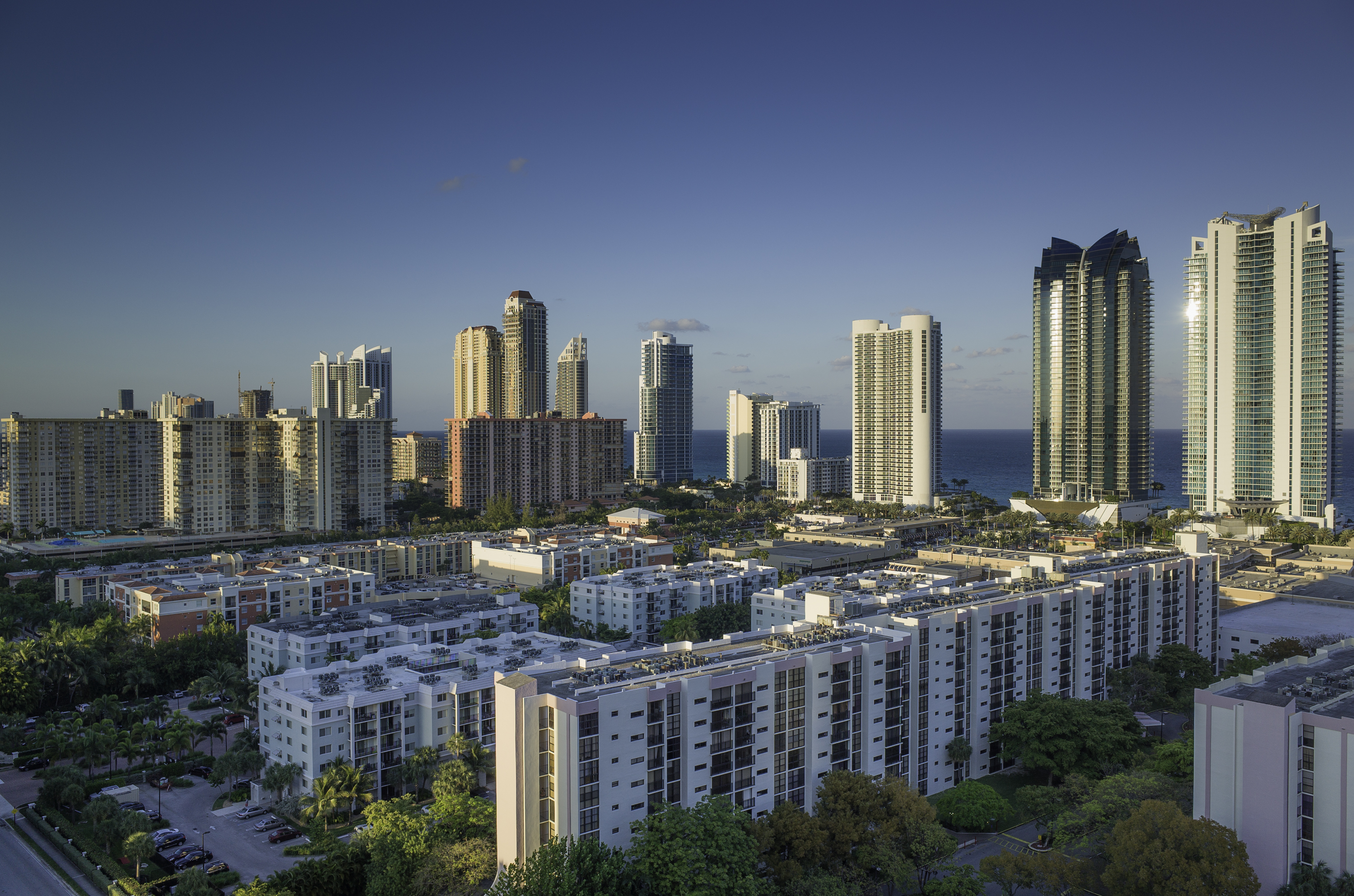 Sunny Isles Beach, Florida